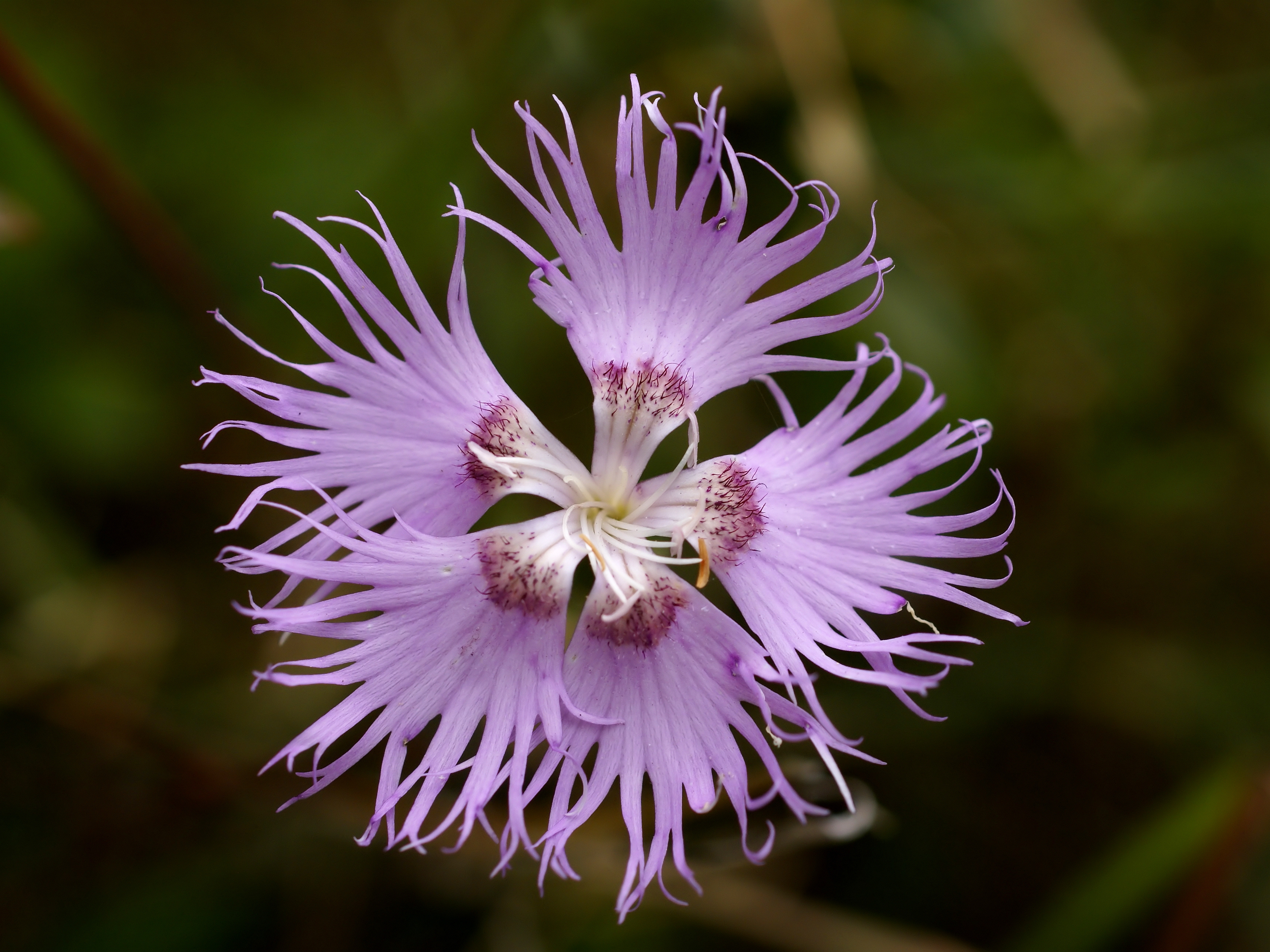 Fringed pink near El Serrat in Andorra.